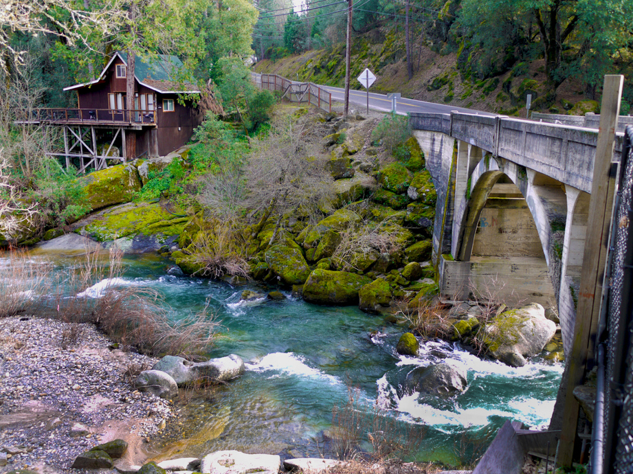 Bridge over the North Fork Cosumnes River — in El Dorado County, California.